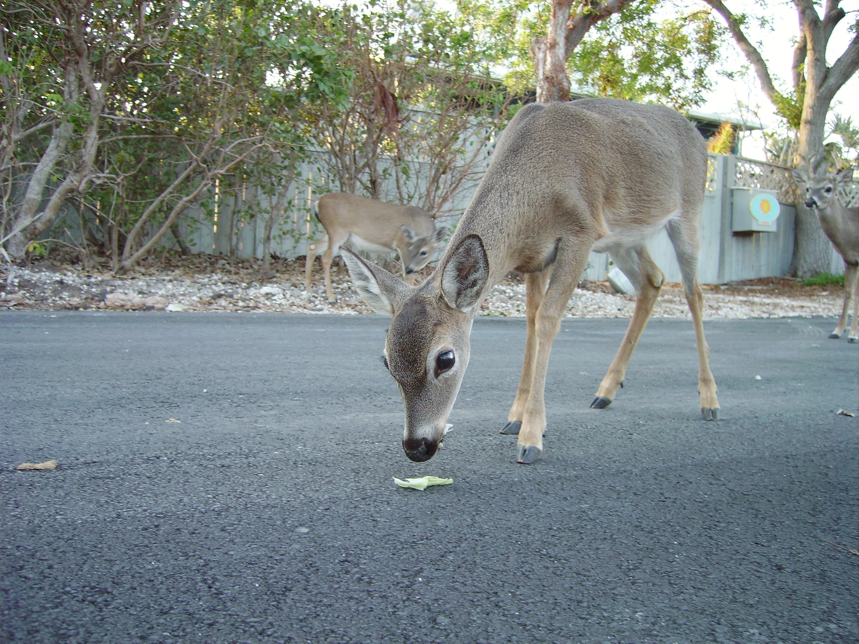 Digital photo taken by Marc Averette. A true Key deer on No Name Key in the Florida Keys. Marc Averette 03:09, 17 October 2006 (UTC)